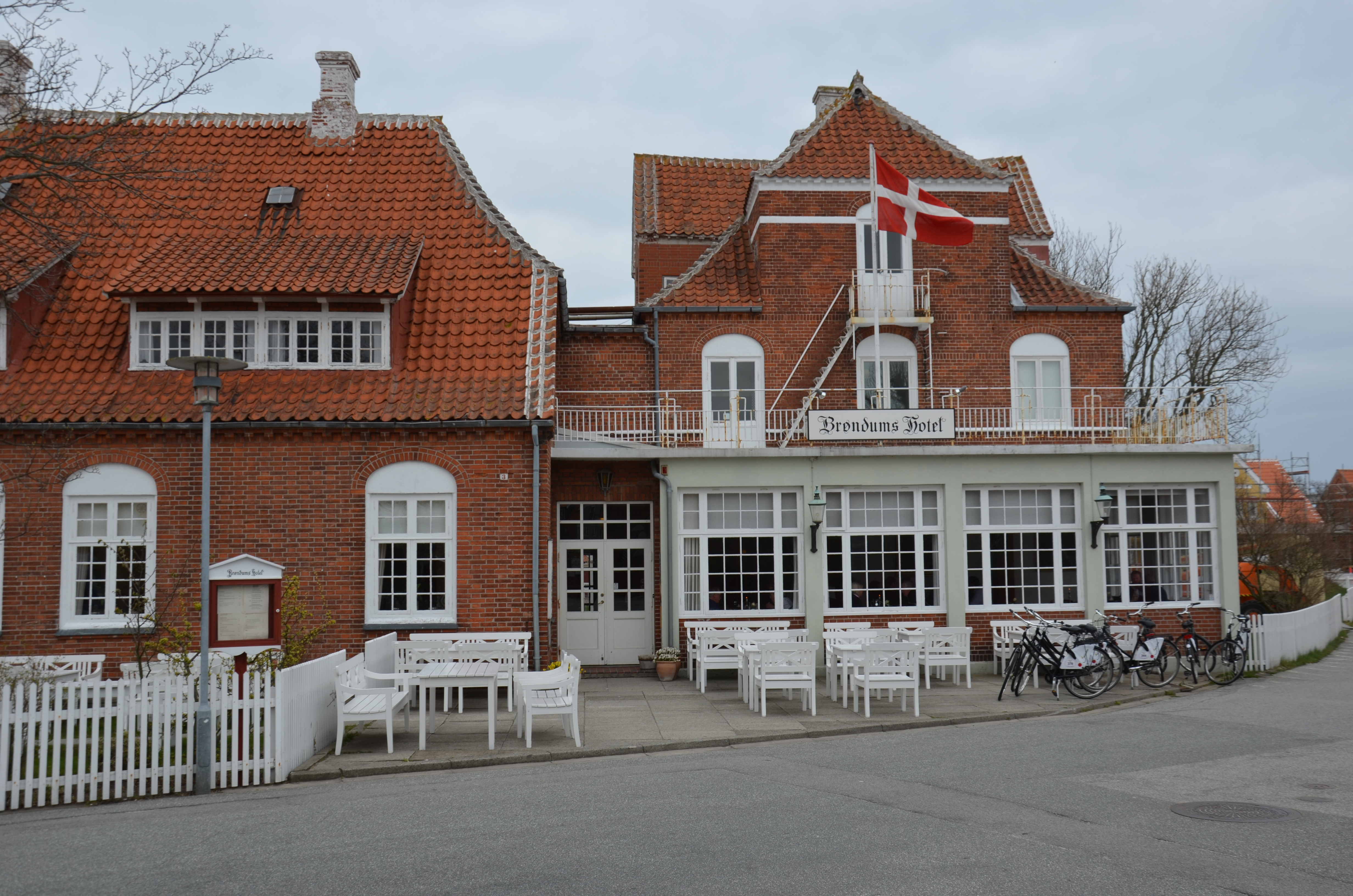 Bröndums hotell, Skagen